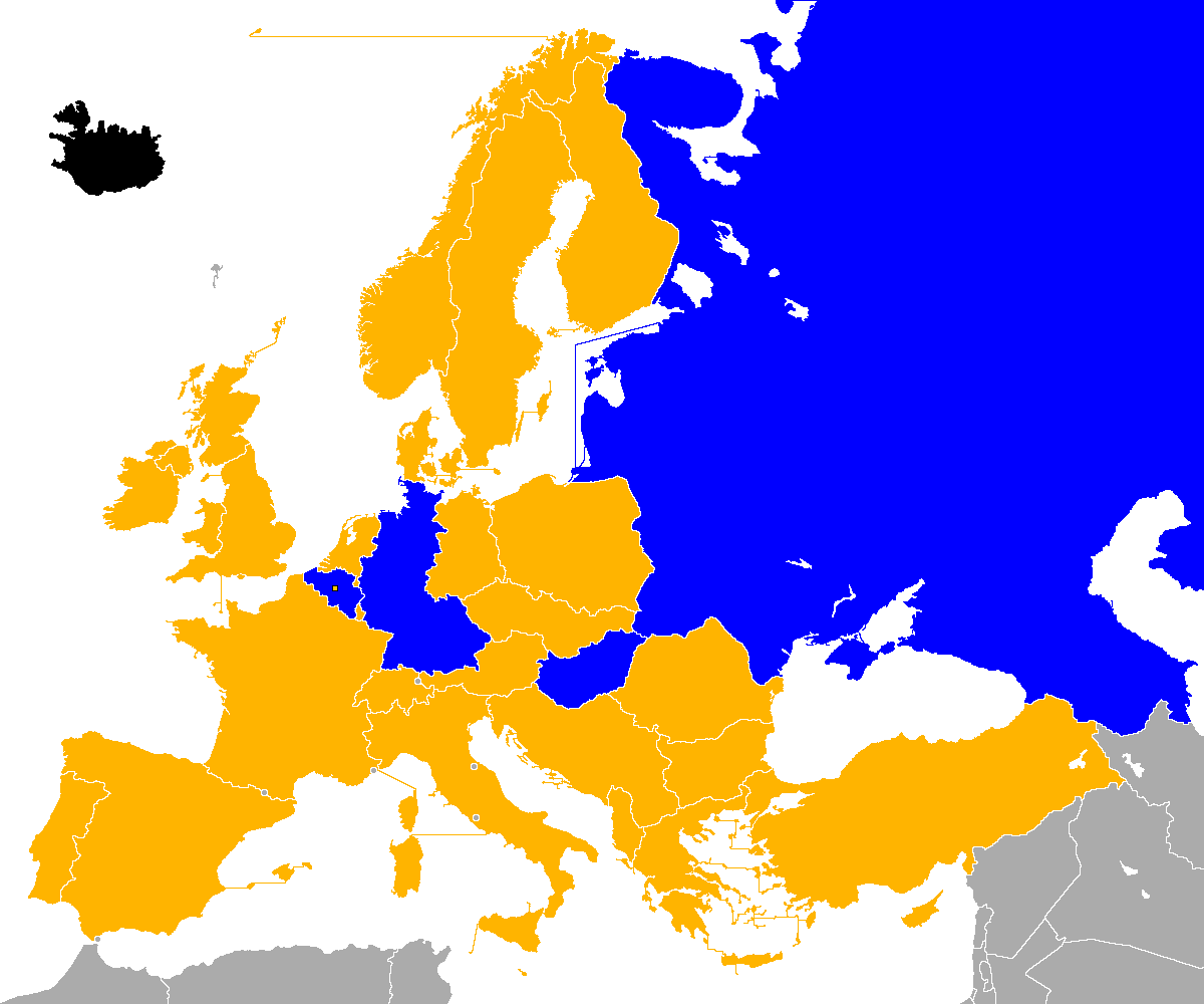 Euro 1972 qualifiers